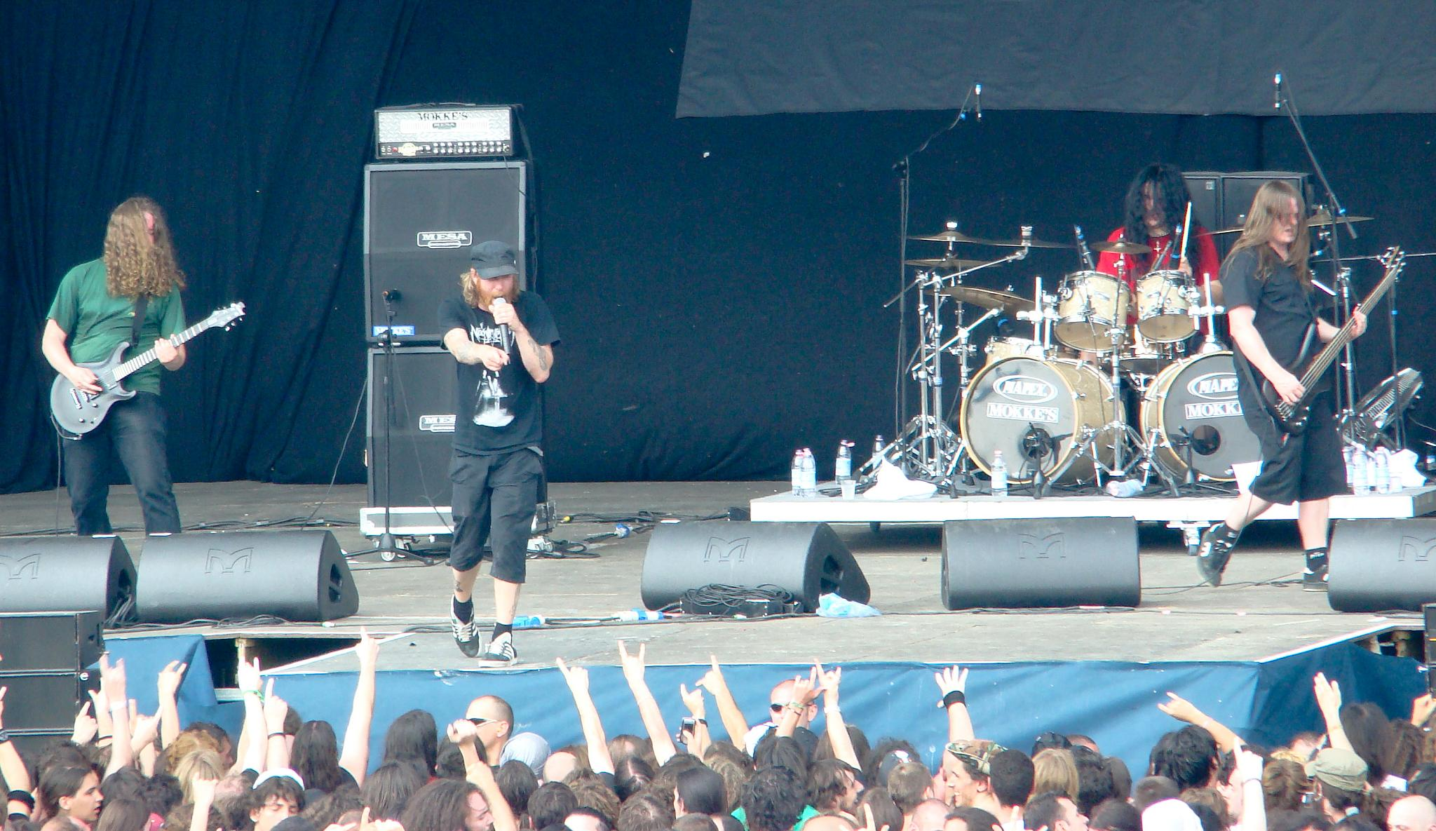 At the Gates live at Gods of Metal 2008.